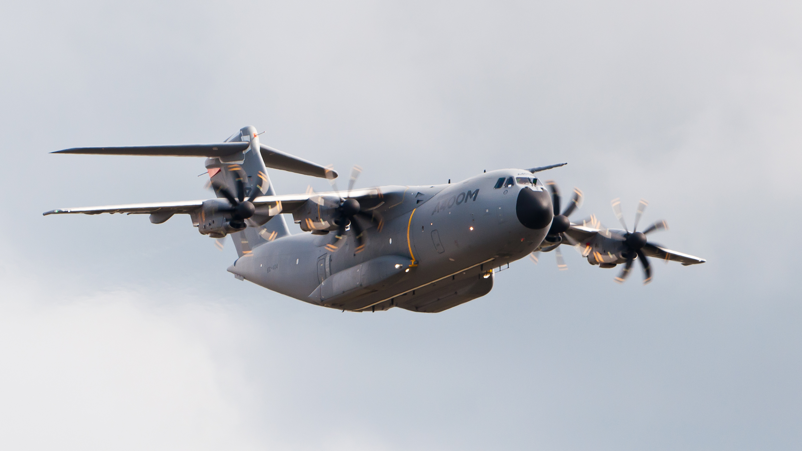 Airbus A400M (EC-404; MSN 004) at ILA Berlin Air Show 2012.